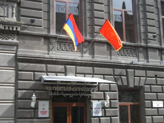 ARF Party Supreme Council of Armenia, Simon Vratsyan centre in Yerevan, served as the Parliament building of the First Republic of Armenia (1918-20).